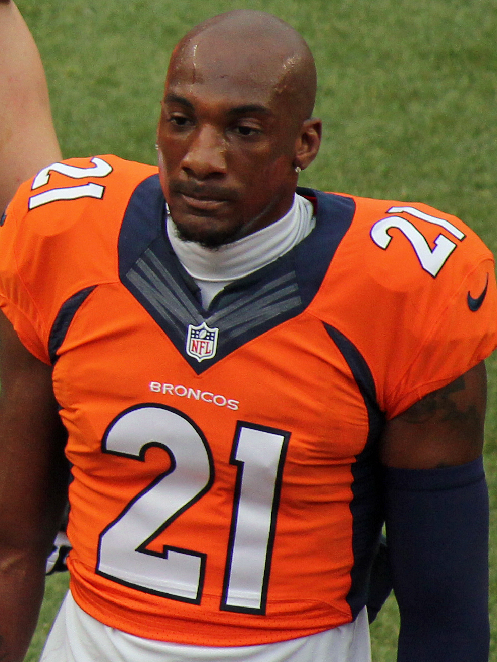 Aqib Talib, a player on the National Football League.